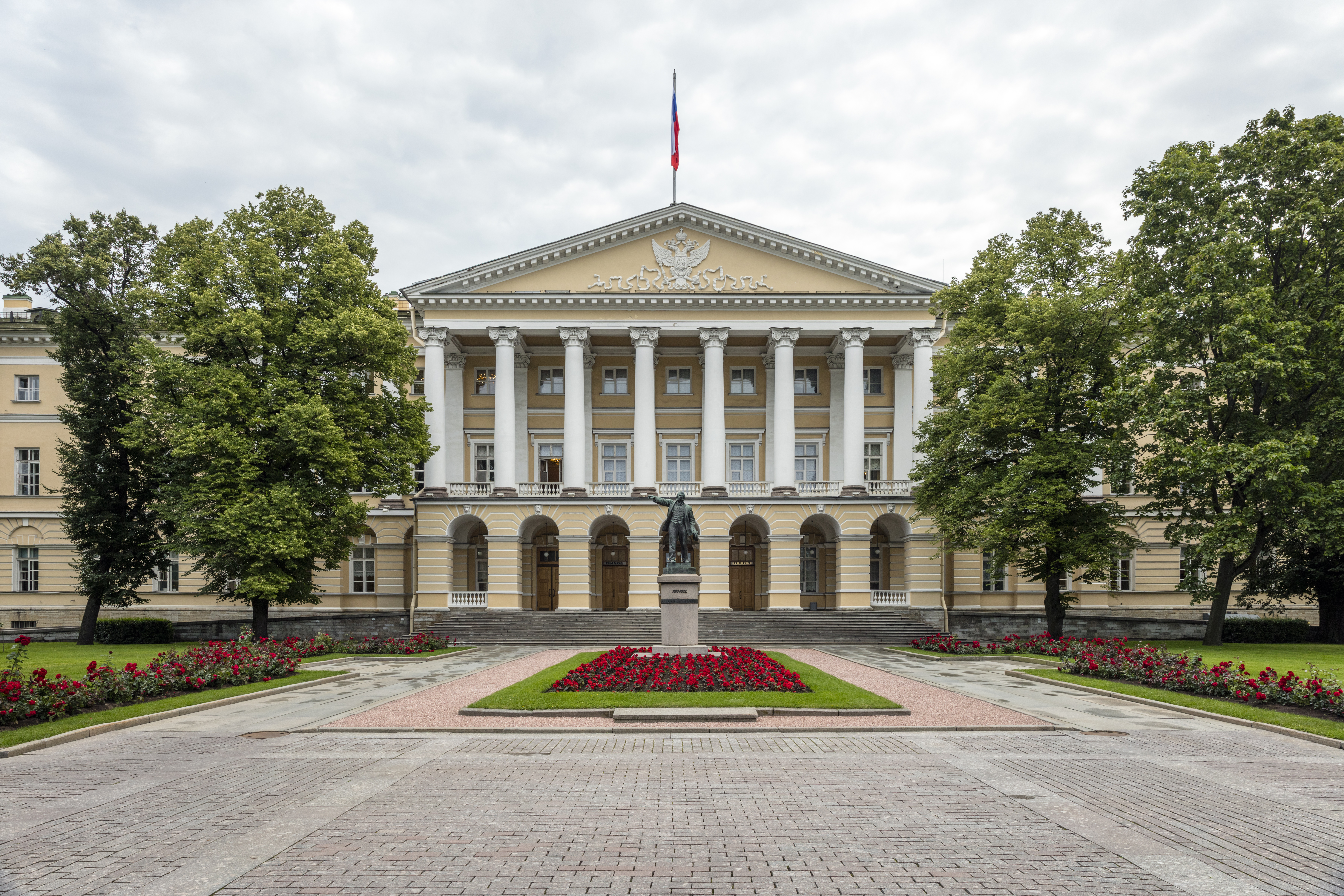 The Smolny Institute building was constructed from 1806–08 to house the female-only Institute for Noble Maidens, in Saint Petersburg, in October 1917 served as the Bolshevik Revolution headquarters and after its success as the new Russian government's office with Lenin's apartment until the government left for Moscow in 1918. Later in Soviet times and now it has been serving as the headquarters of the city authorities. Russia.